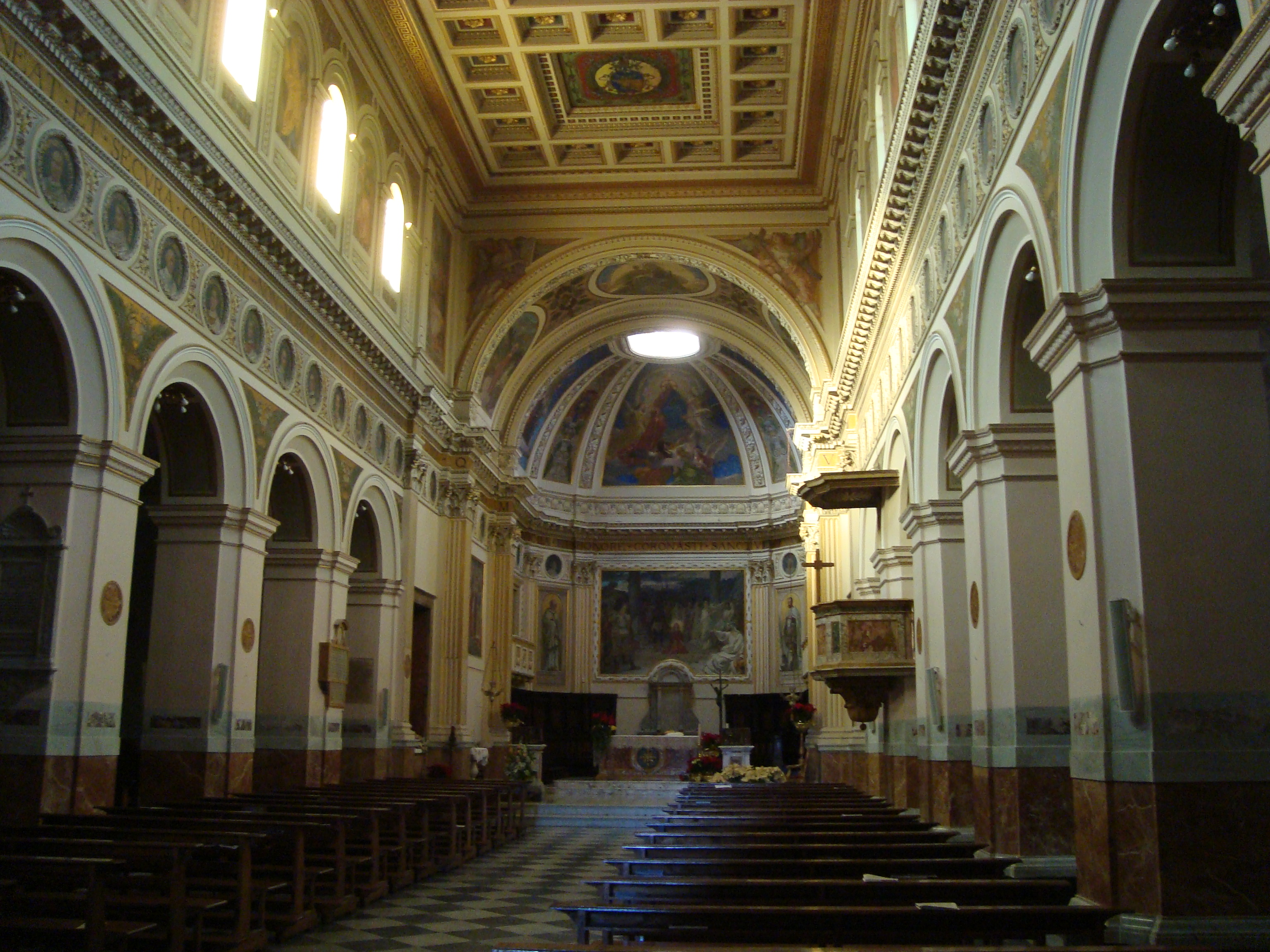 Inside view of the cathedral Sant'Agapito in Palestrina